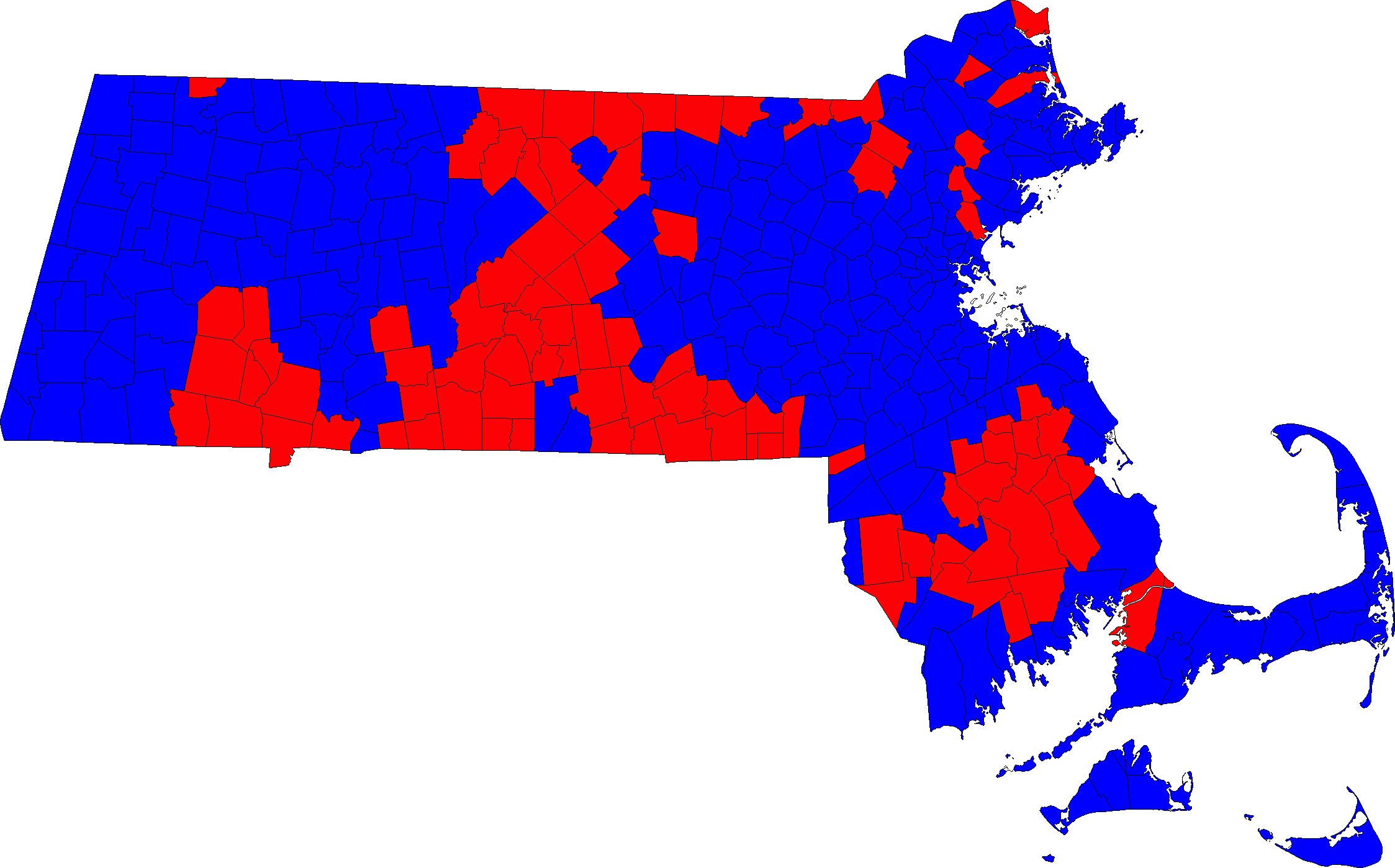 Results of the 2016 U.S. presidential election in Massachusetts. Towns in blue won by Hillary Clinton, red by Donald Trump. Data procured at